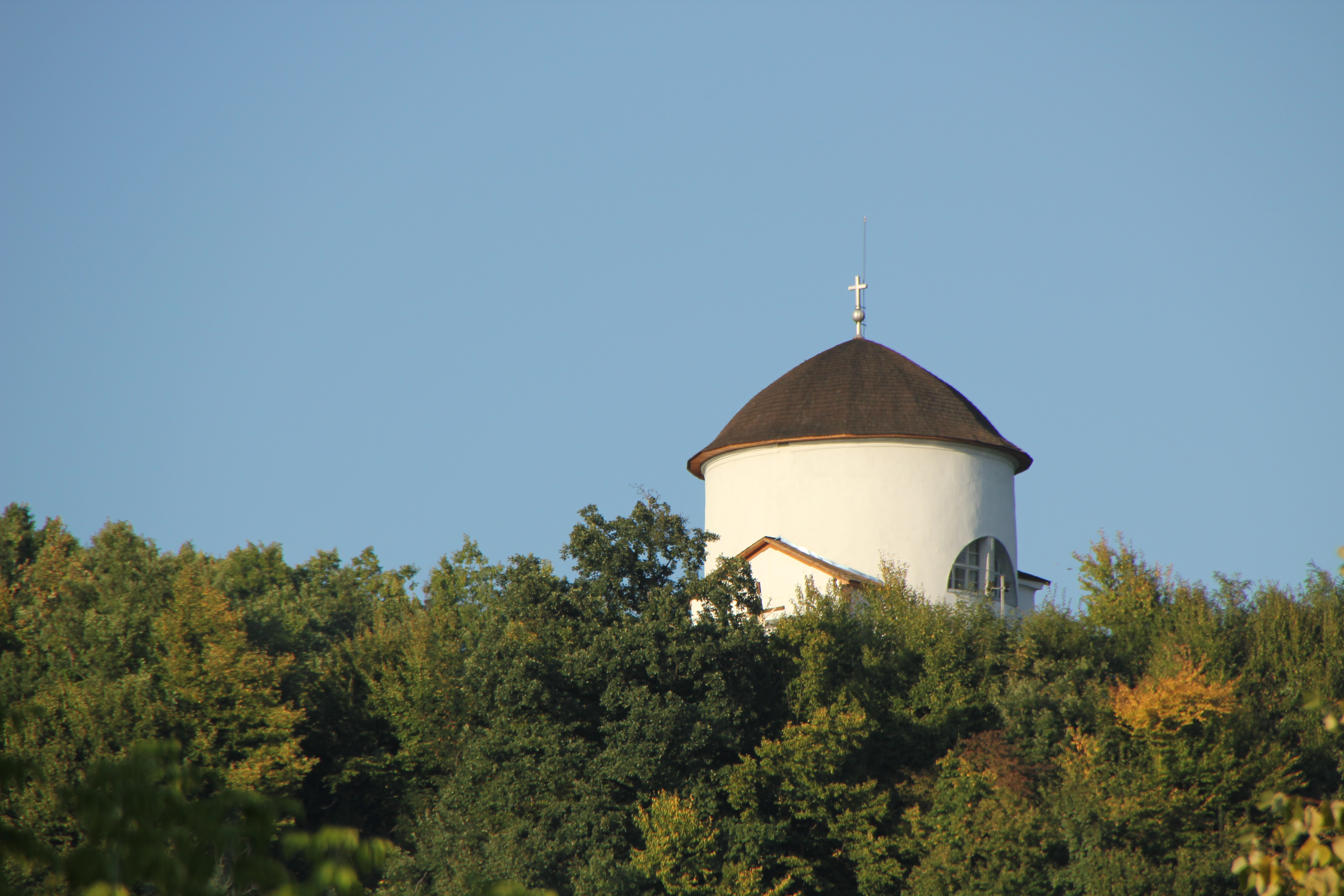 "Calvary" chapel, Baia Sprie City, Iancu Avram street, no 40, sec XVII